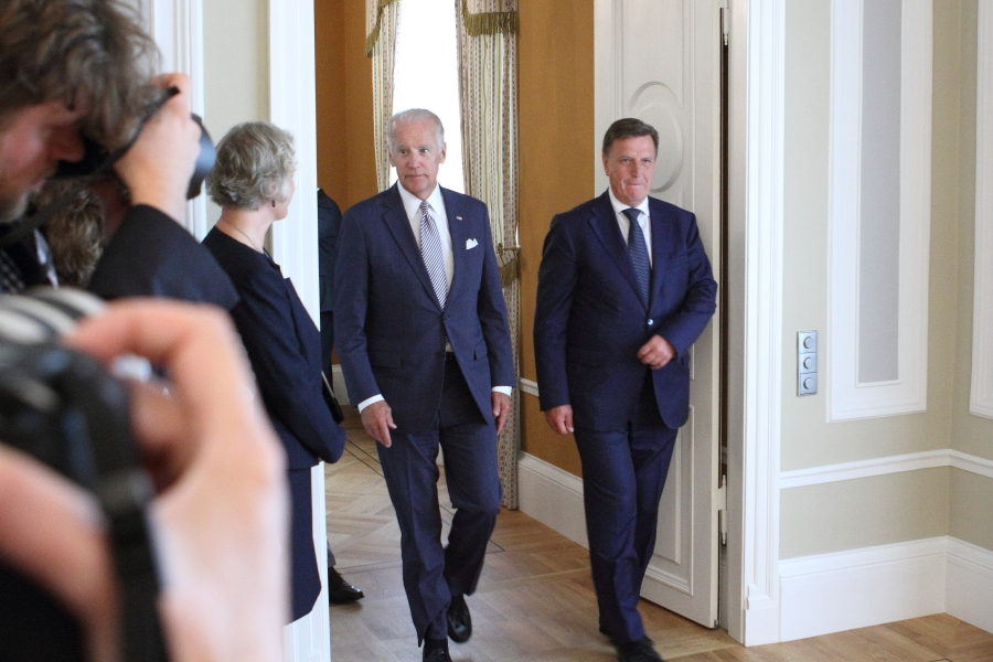 Vice President Biden met today with Prime Minister of the Republic of Latvia Māris Kučinskis in Riga.